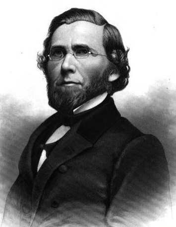 Samuel Clement Fessenden (Maine Congressman)